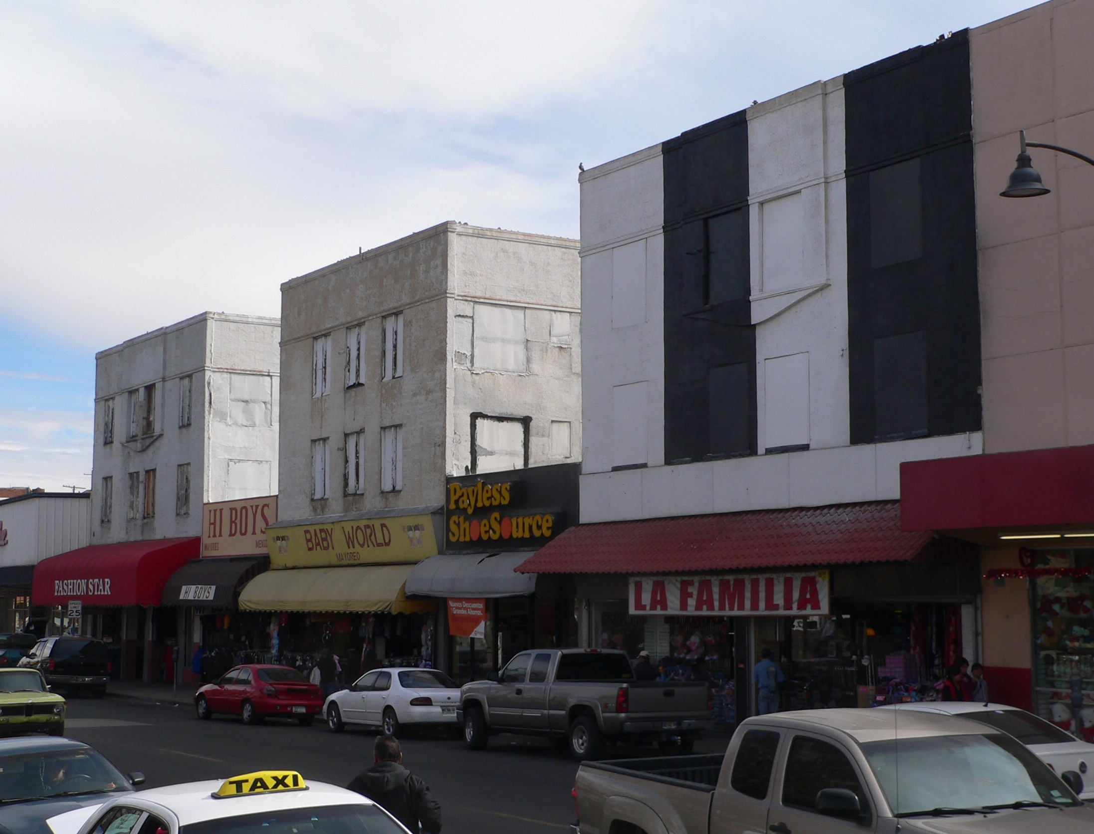 Montezuma Hotel, located at 108-120 Morley Avenue in Nogales, Arizona. The building is now occupied by five businesses: Fashion Star, Hi Boys, Baby World, Payless Shoe Source, and La Familia.